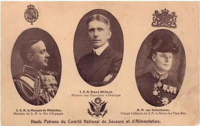 The triumvirate that helped the Belgian people during the First World War. From left to right: de Villalobar, Brand Whitlock and Maurits van Vollenhoven.